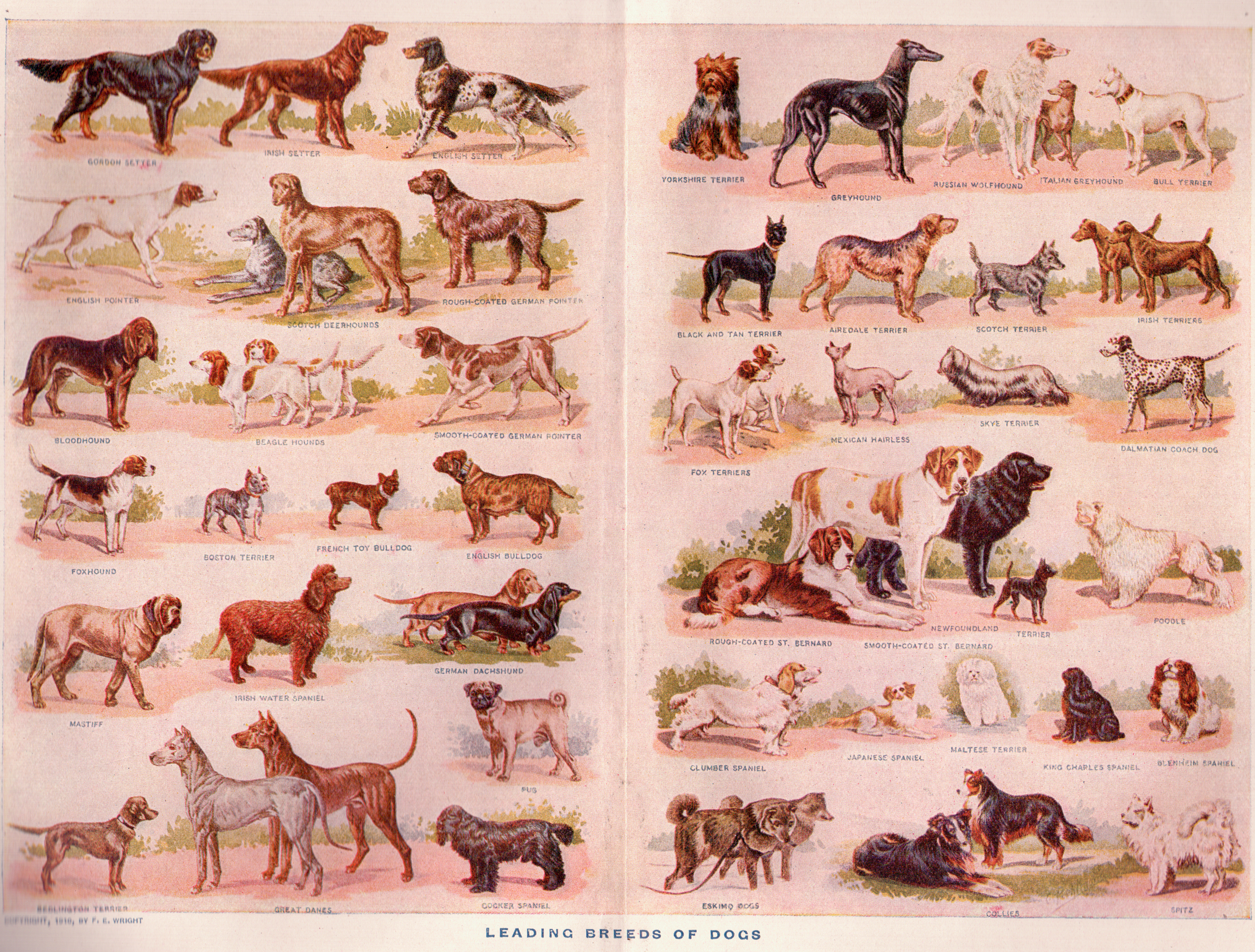 This color illustration is from Webster’s New Illustrated Dictionary Based on Noah Webster’s dictionary, revised and edited by Edward T. Roe and Charles Leonard-Stuart. The book was published by Syndicate Publishing Company of New York in 1911. This illustration has a copyright of 1910 by F.E. Wright. The title is "Leading Breeds of Dogs" Flickr data on 2011-08-17: Tags: 1911, book, breeds, color, colored illustrations, copyright free, creative commons, dictionary License: CC BY 2.0 User: perpetualplum Sue Clark